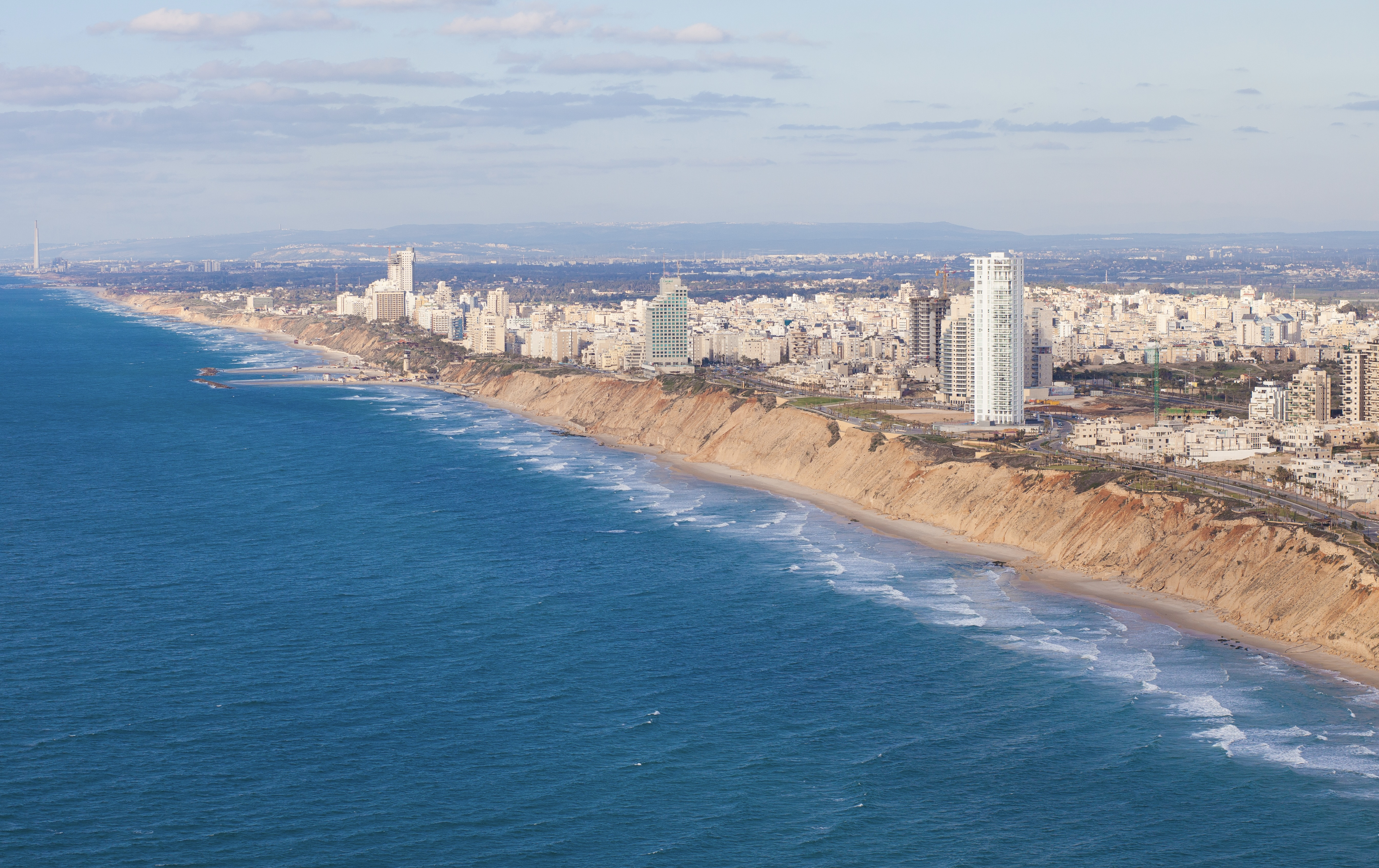 Netanya Beach Promende, an areal view Photo taken by Dana Friedlander for the Israeli Ministry of Tourism. Credit attribution requested